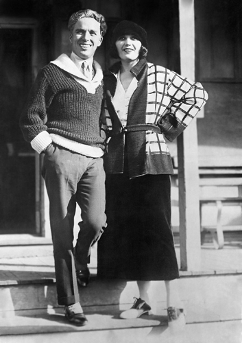 Pola Negri with Charlie Chaplin